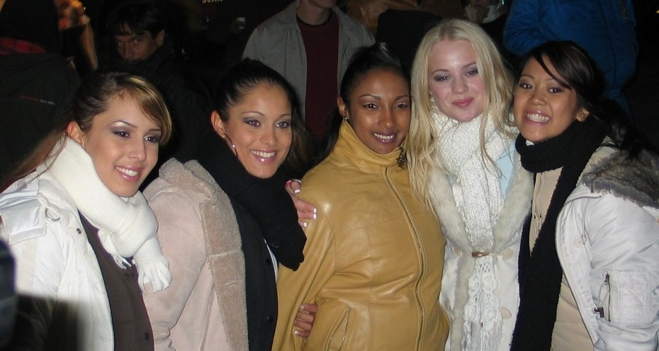 The girl band "Preluders" in Winterberg. Miriam Cani, Rebecca Miro, Tertia Botha, Anne Ross, Anh-Thu Doan (left to right)